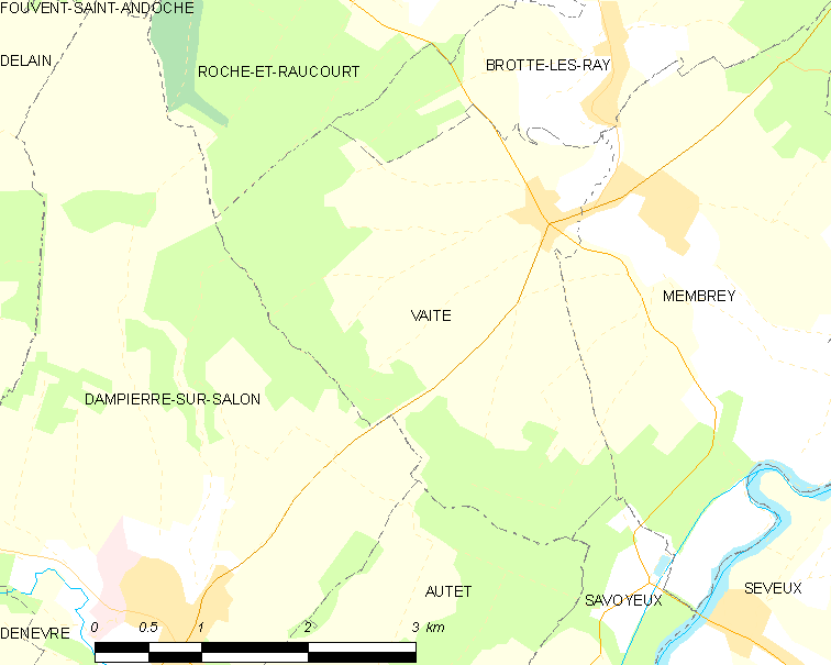 Map of French municipality